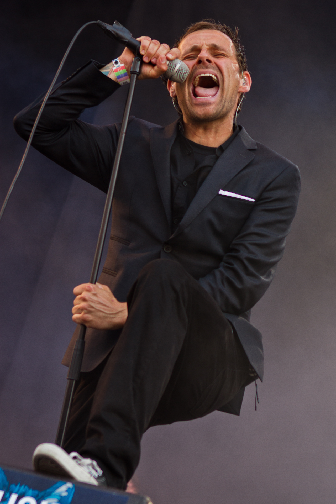 Ingo Knollmann of Donots at Southside Festival 2014 in Neuhausen ob Eck